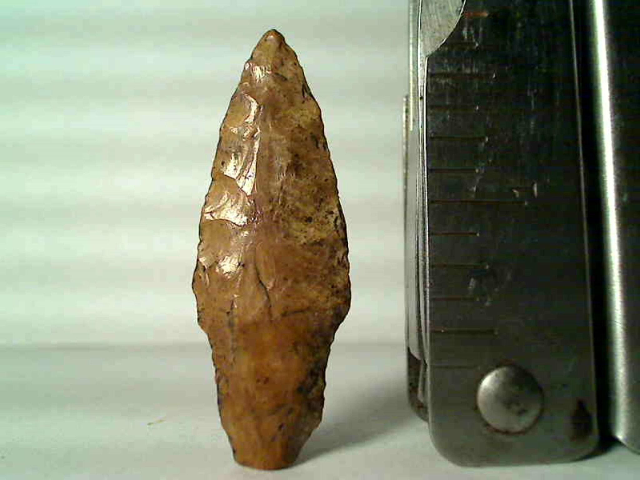 Picture of broken Scottsbluff (9500 - 8500 B.P.) with strong characteristics of Cody Complex flaking. Believed to have been found approx. 2000 to 3000 years later and reworked/adapted to contracting stem technology by an Archaic culture known as the Adena. Made of Permian chert and found on the Arkansas River near Sand Springs in Northeast Oklahoma. Found by Noah Benzing and authenticated by Bill Breckenridge in 2011. 1 3/4"L x 5/8" W